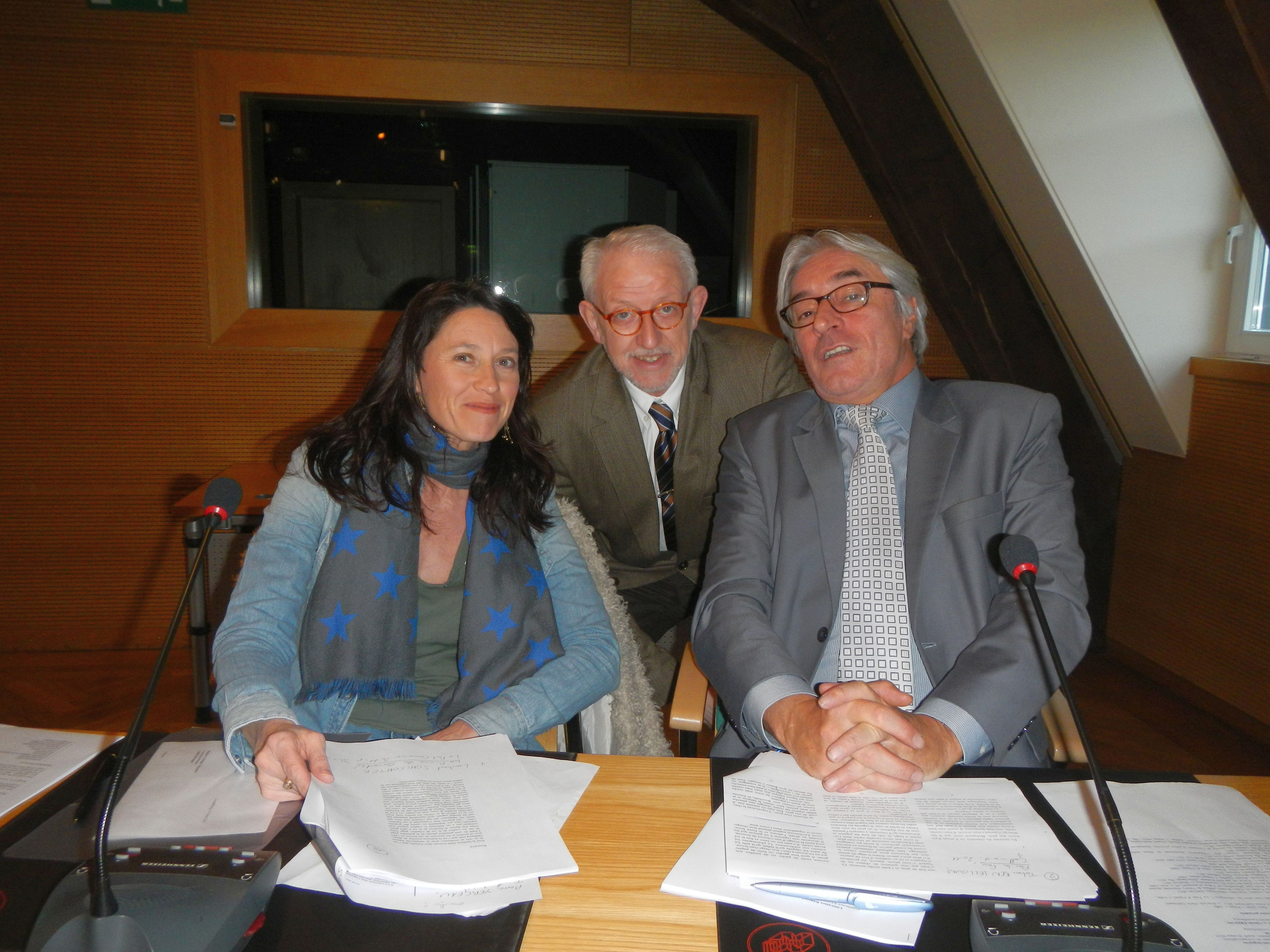 Actress Véronique Fauconnet, professor Frank Wilhelm and actor Claude Frisoni at the Journée internationale de la Francophonie on March 20th 2012 in Luxembourg-city (Salle Edmond Dune in Centre culturel et de rencontre Abbaye de Neumünster).